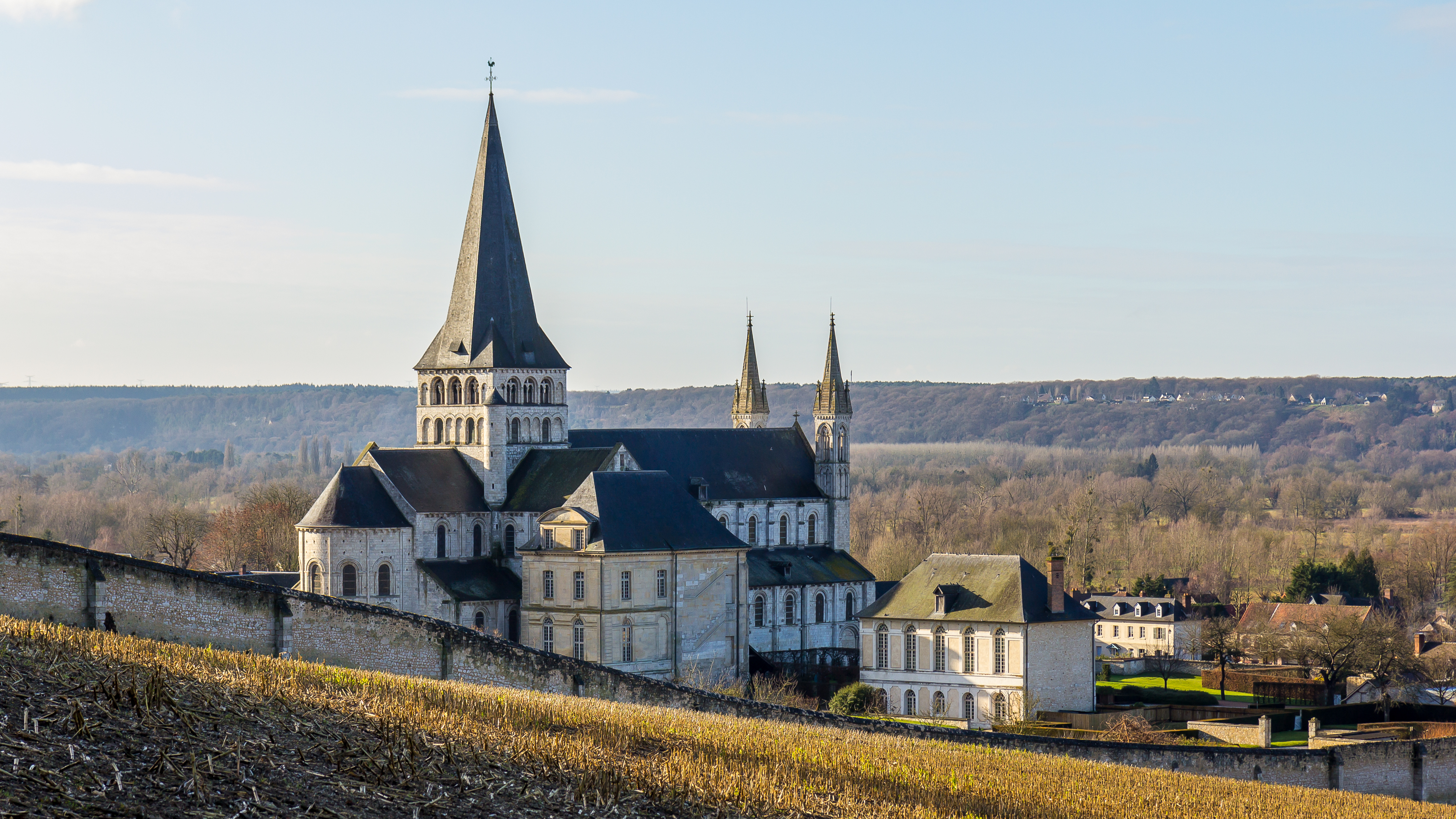 Abbey of Saint-Georges, Saint-Martin-de-Boscherville, Normandy